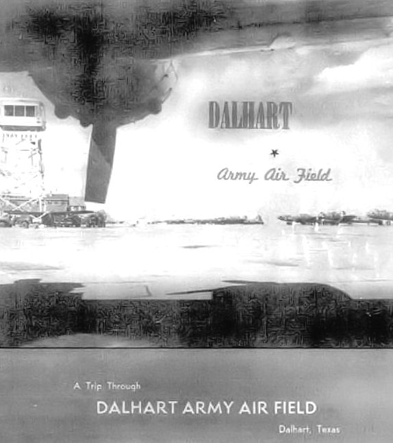 Cover of 1944 Dalhart Army Airfield base guide